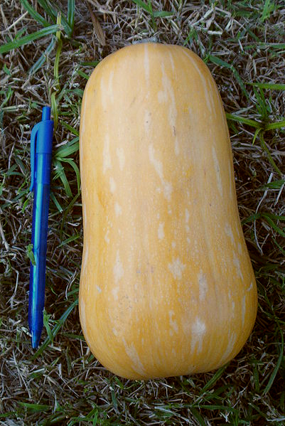 Cucurbita moschata Bell type - cultivar with light mottled stripes picture B. At market in Fortín Olavarría, partido de Rivadavia, provincia de Buens Aires, Argentina, 24/02/2014.